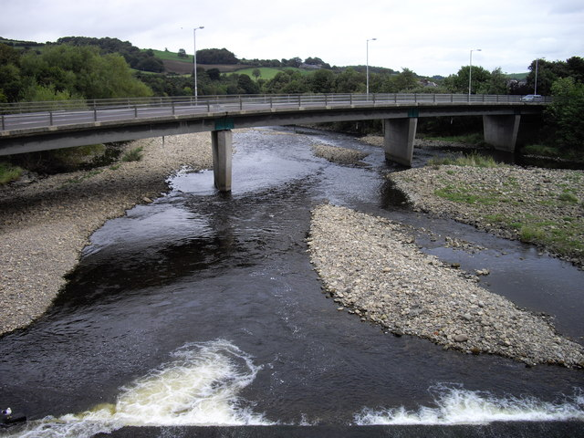 A69 Bridge across the South Tyne River at Haydon Bridge Picture taken from the old bridge